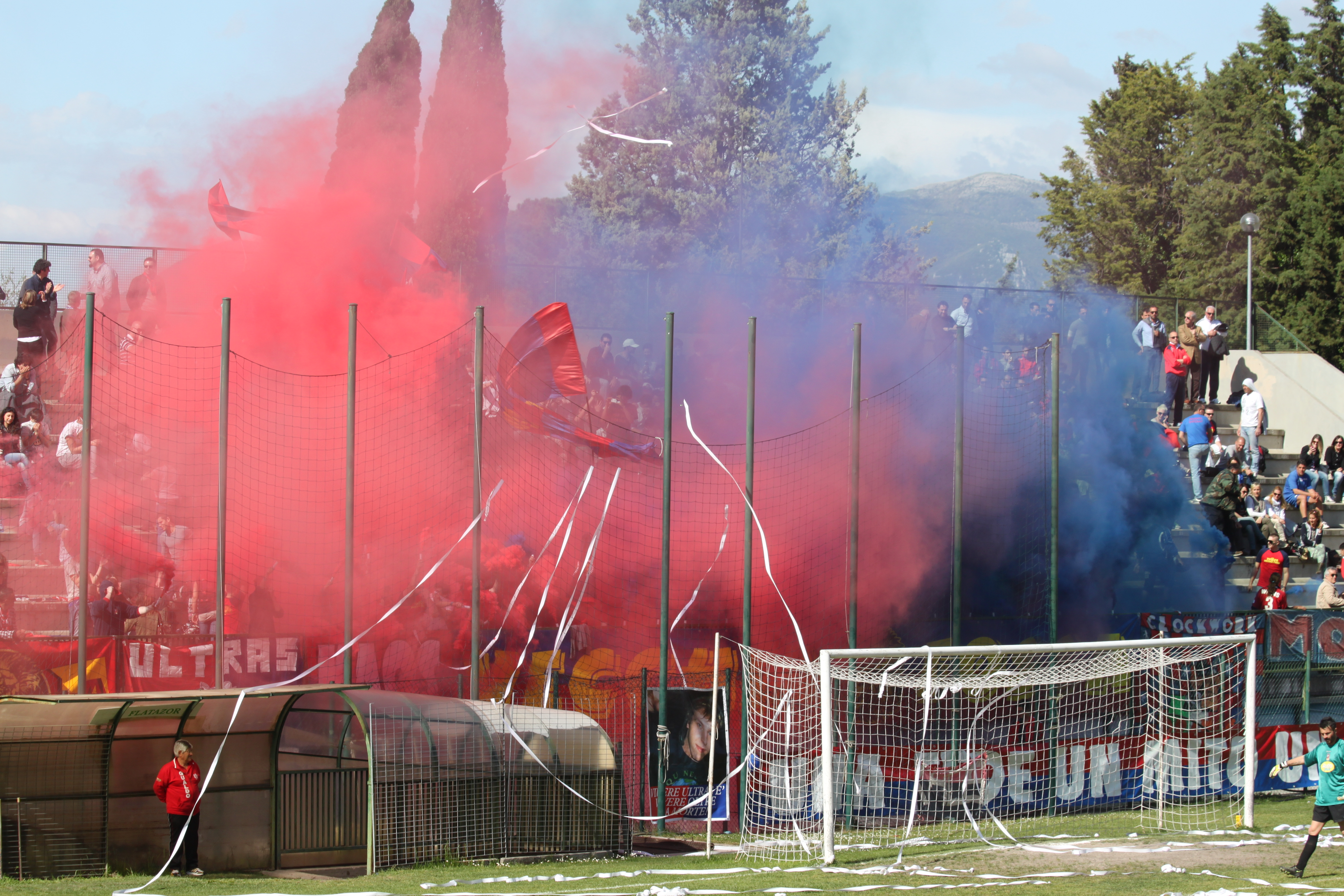 La Curva Nord in occasione della partita Narnese-Gualdo 2012-13.